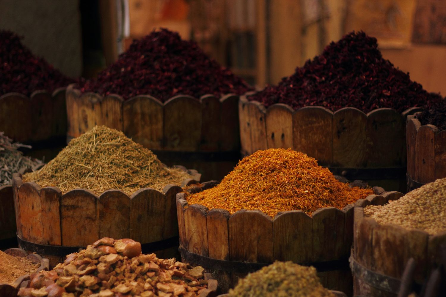 Spices on display in Luxor